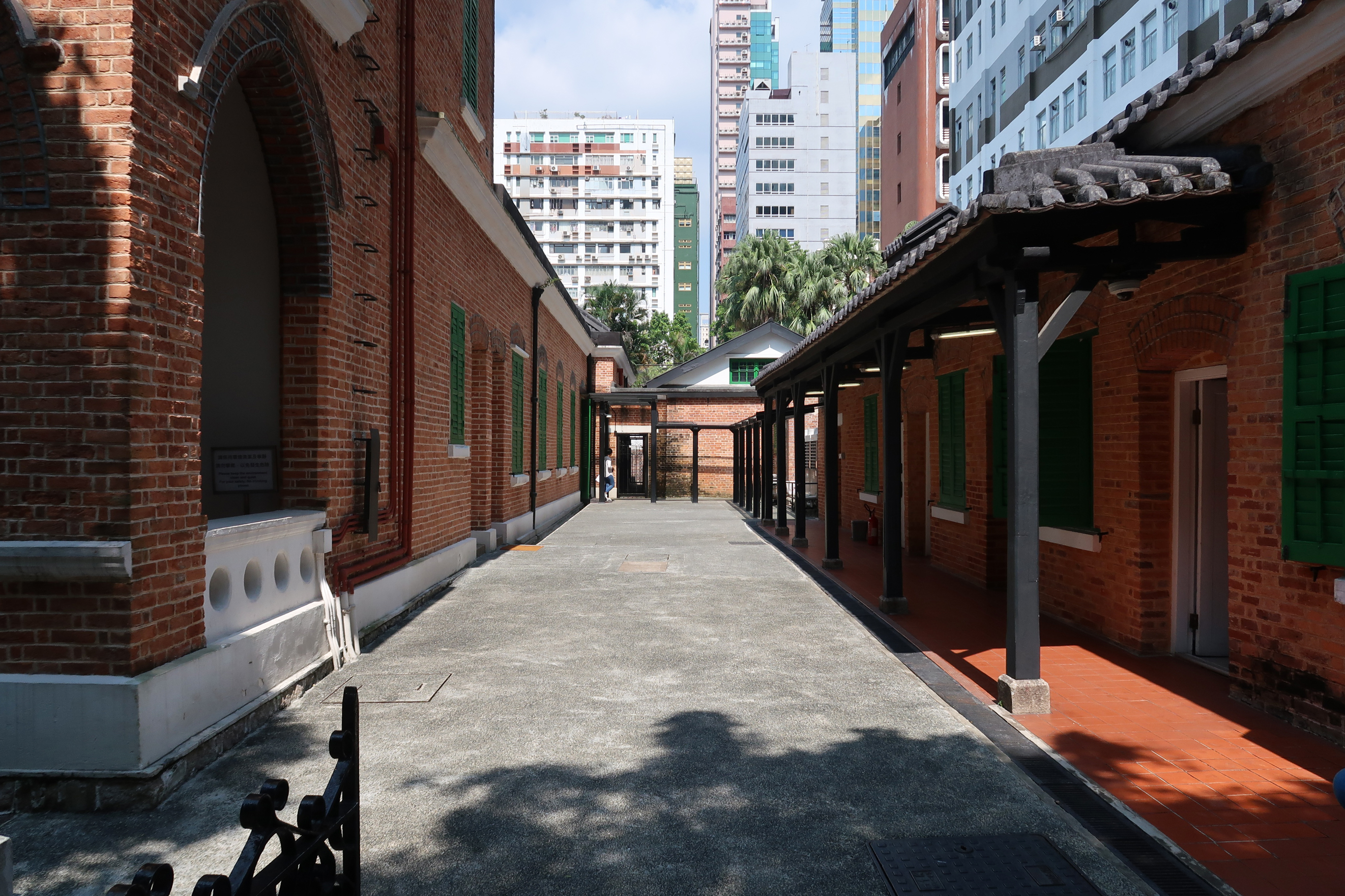 Former Kowloon British School